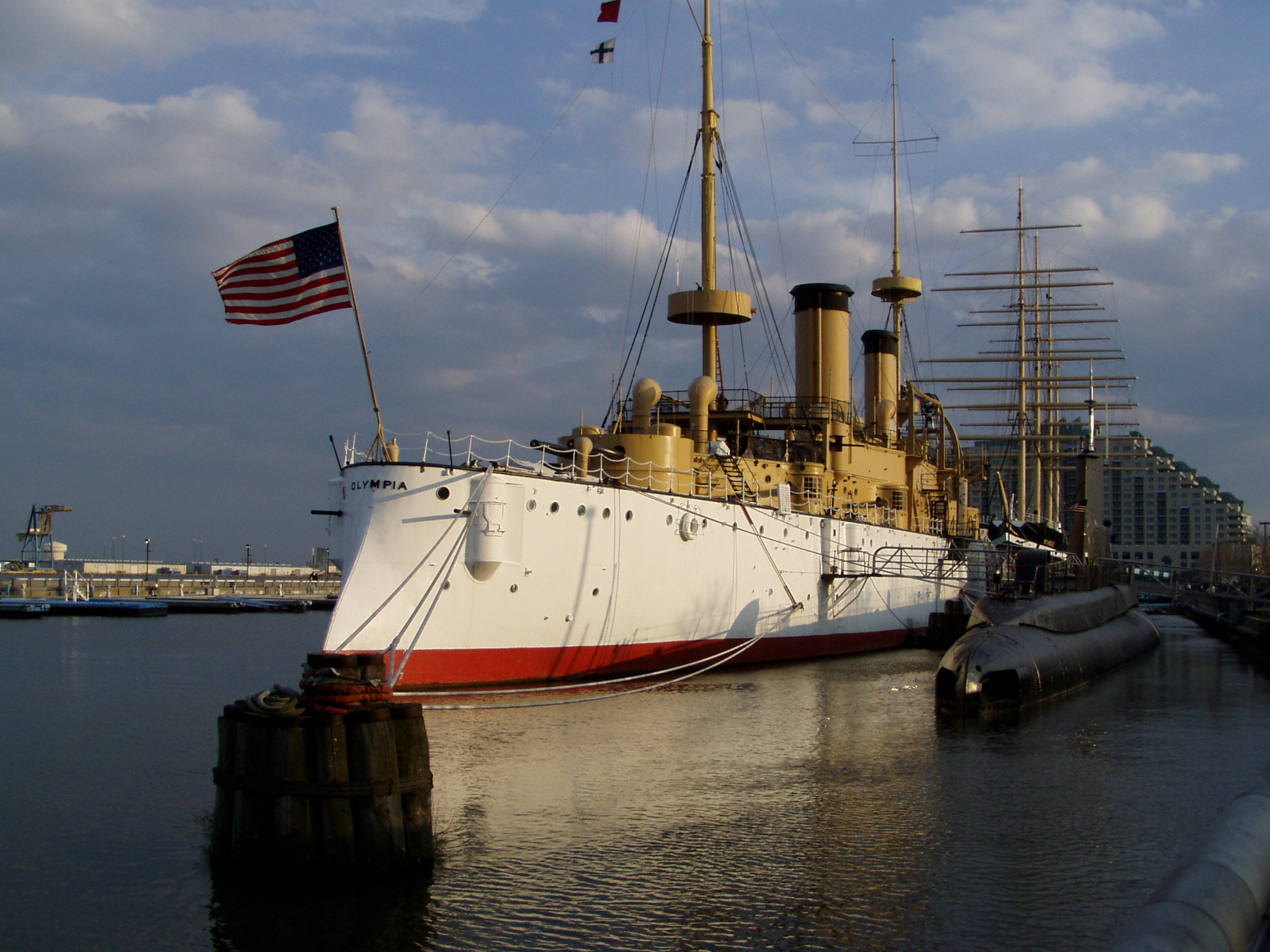 The USS Olympia on display as a museum ship on the Delaware River near Penn's Landing in Philadelphia.